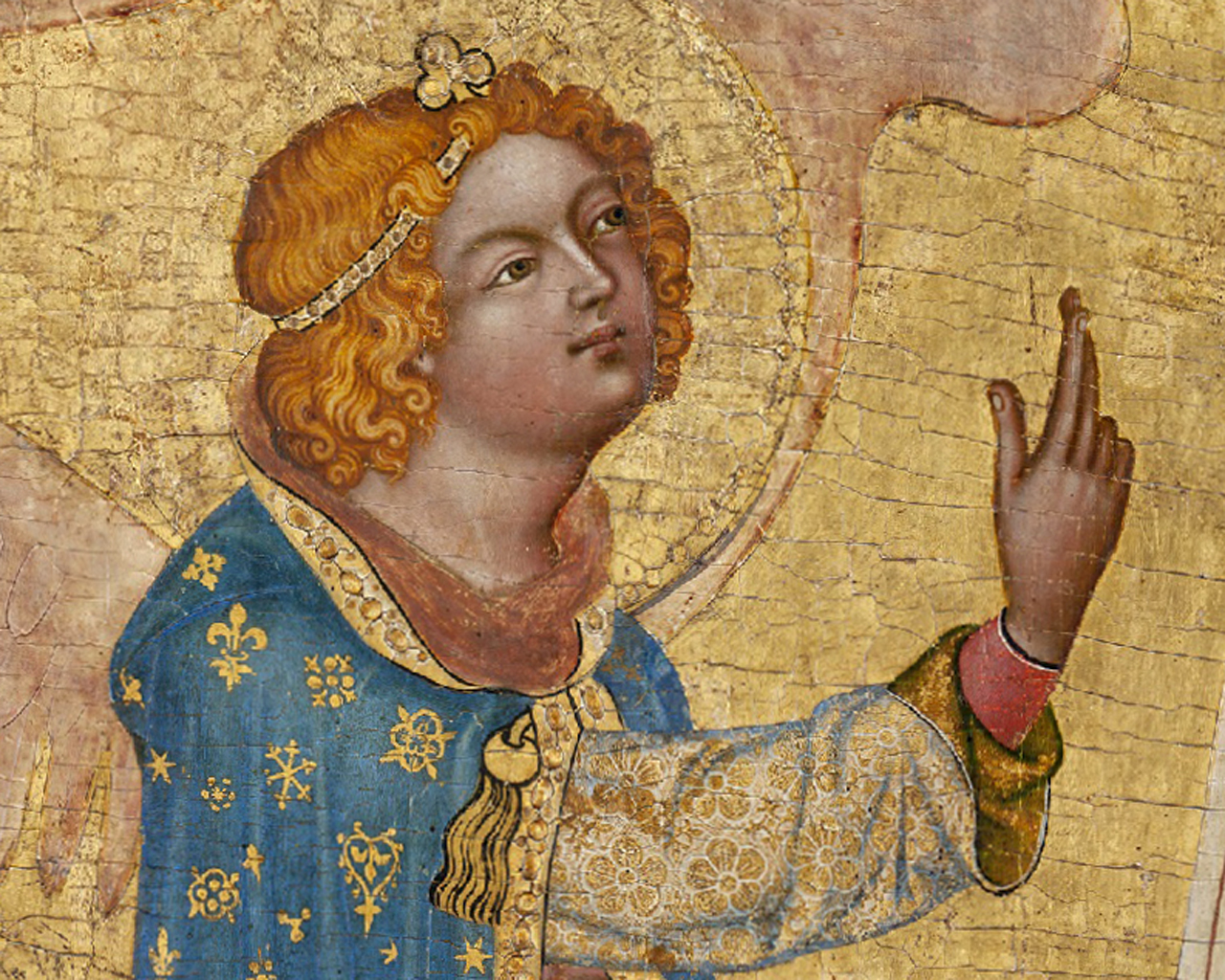 Hohenfurth Altarpiece - Annunciation (detail), National Gallery in Prague